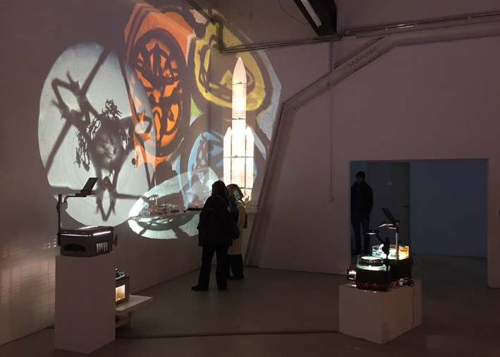 "Durchquerung des Alls II", Harro Schmidt, Installation 2019, "Territorien II"; Domagk Ateliers, Halle 50, München